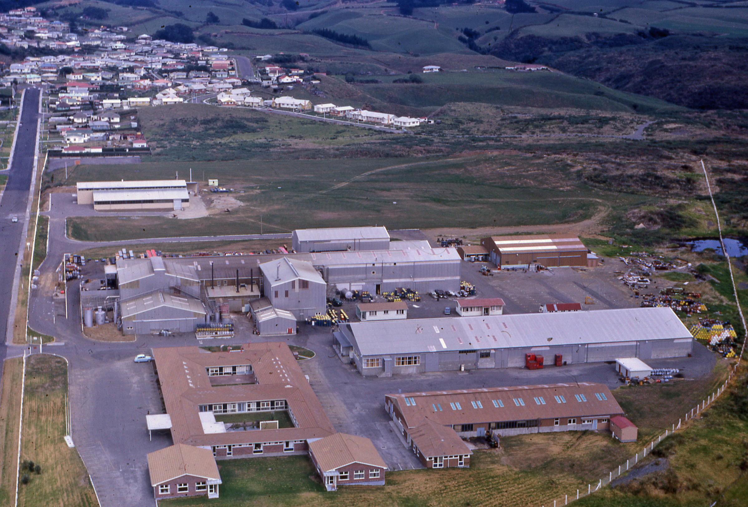 Ivon Watkins Dow factory, New Plymouth, New Zealand 1968 (from the summit of Paritutu) When I arrived in New Plymouth in 1968 this was described as a fertilizer and pesticide factory. Soon after rumours began to spread that it was manufacturing defoliants for use in Vietnam. This was strongly denied. The trouble was that the pesticide 2-4-5-T - which was being openly and commercially manufactured for use on New Zealand farms - was the core ingredient of Agent Orange, and nobody at the time knew that it was harmful to humans. The denials were not a chemcial cover up, but a political one. The government did not want to stir up the growing anti-war movement in New Zealand at a time when over 3000 NZ troops were serving in Vietnam. Subsequently it has been established that Agent Orange was being manufactured here. When Vietnam troops and their families were showing the effects of dioxin poisoning questions began to be asked about the risk to people who lived and worked here. While 245T manufacture ceased everywhere else in the world by 1978, it continued here until 1987. Although abnormal rates of birth defects and certain kinds of cancer amongst those who lived here in the 60s was measured and confirmed in the 90s it is only in the past few years that a very guarded and conditional acceptance of problems has come from public health officials. For me this is a very personal example of the fact that the reverberating effects of wars echo down through the generations and do not just cease when the war ceases. It is also a challenge to those who maintain that we don't need to take precautions over new technological and scientific applications until there is scientific proof of harm.